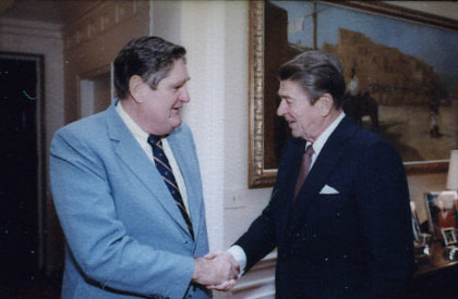 President Reagan, Charles Grassley (2A-3A) President Reagan, Howell Heflin( 4A-8A) President Reagan, William Cohen (9A-11A)